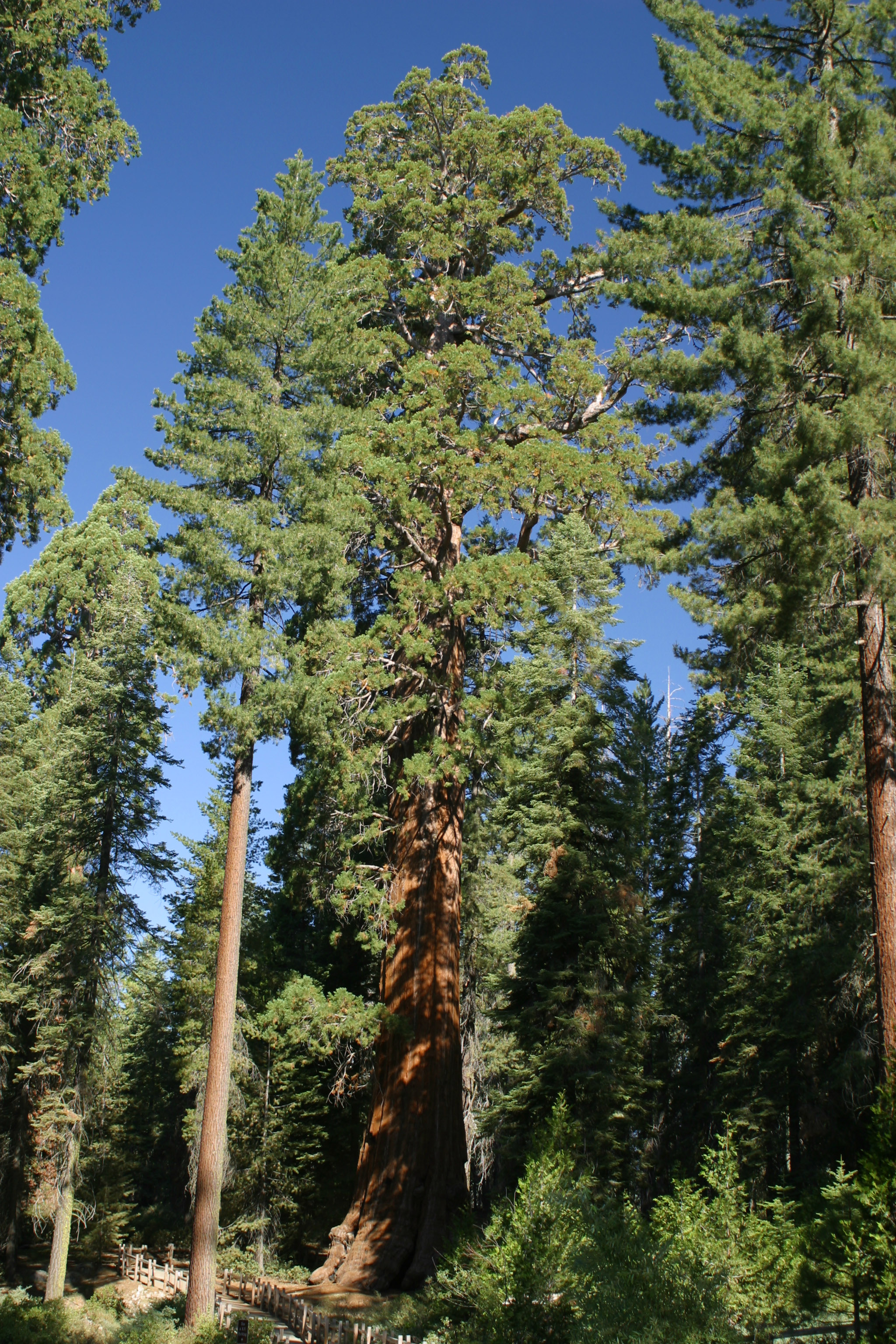 Mixed Sierra Nevada coniferous forest with Abies concolor, Pinus lambertiana, Sequoiadendron giganteum. General Grant Grove, Kings Canyon National Park, California, USA.